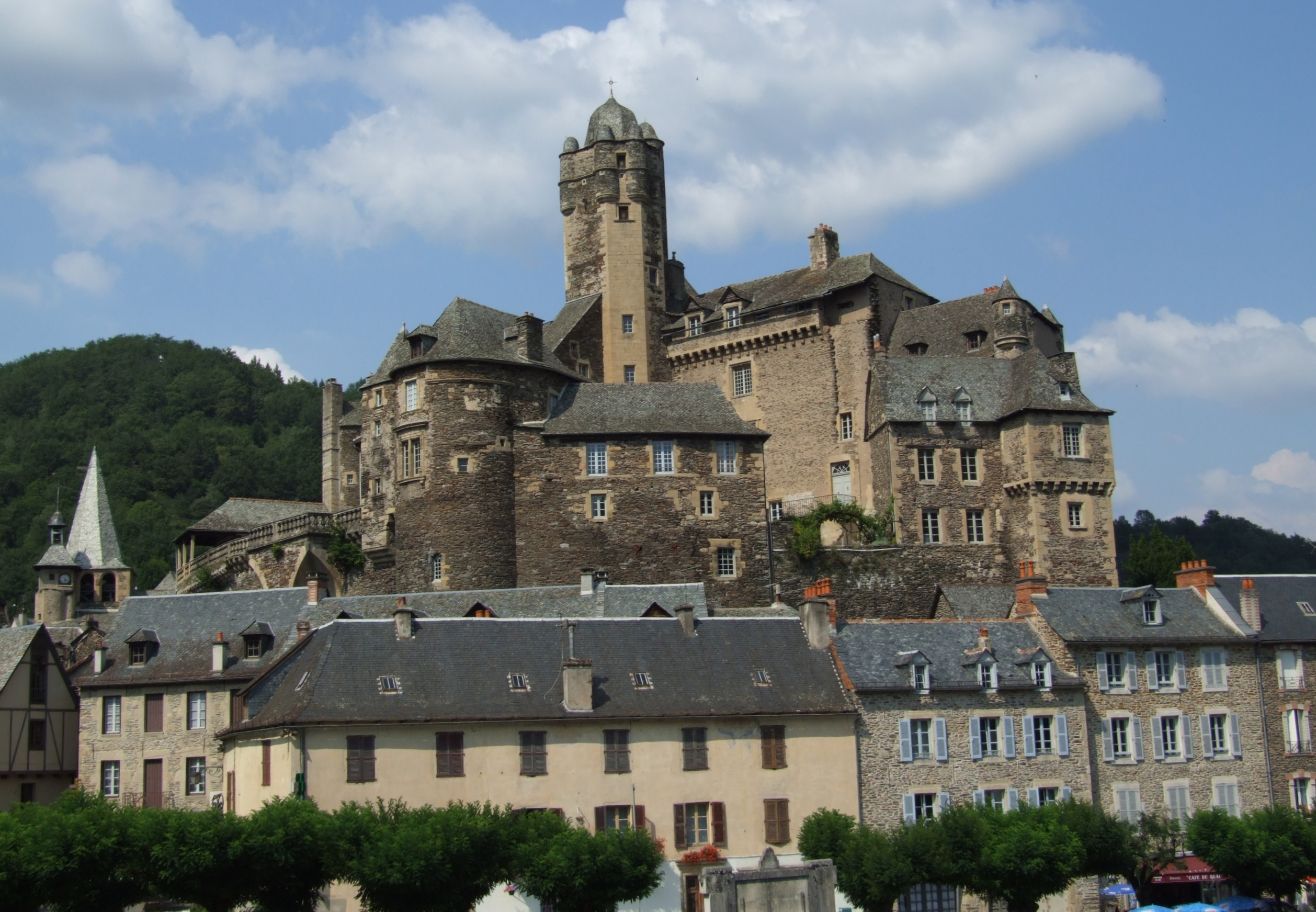 Estaing, Aveyron, FRANCE